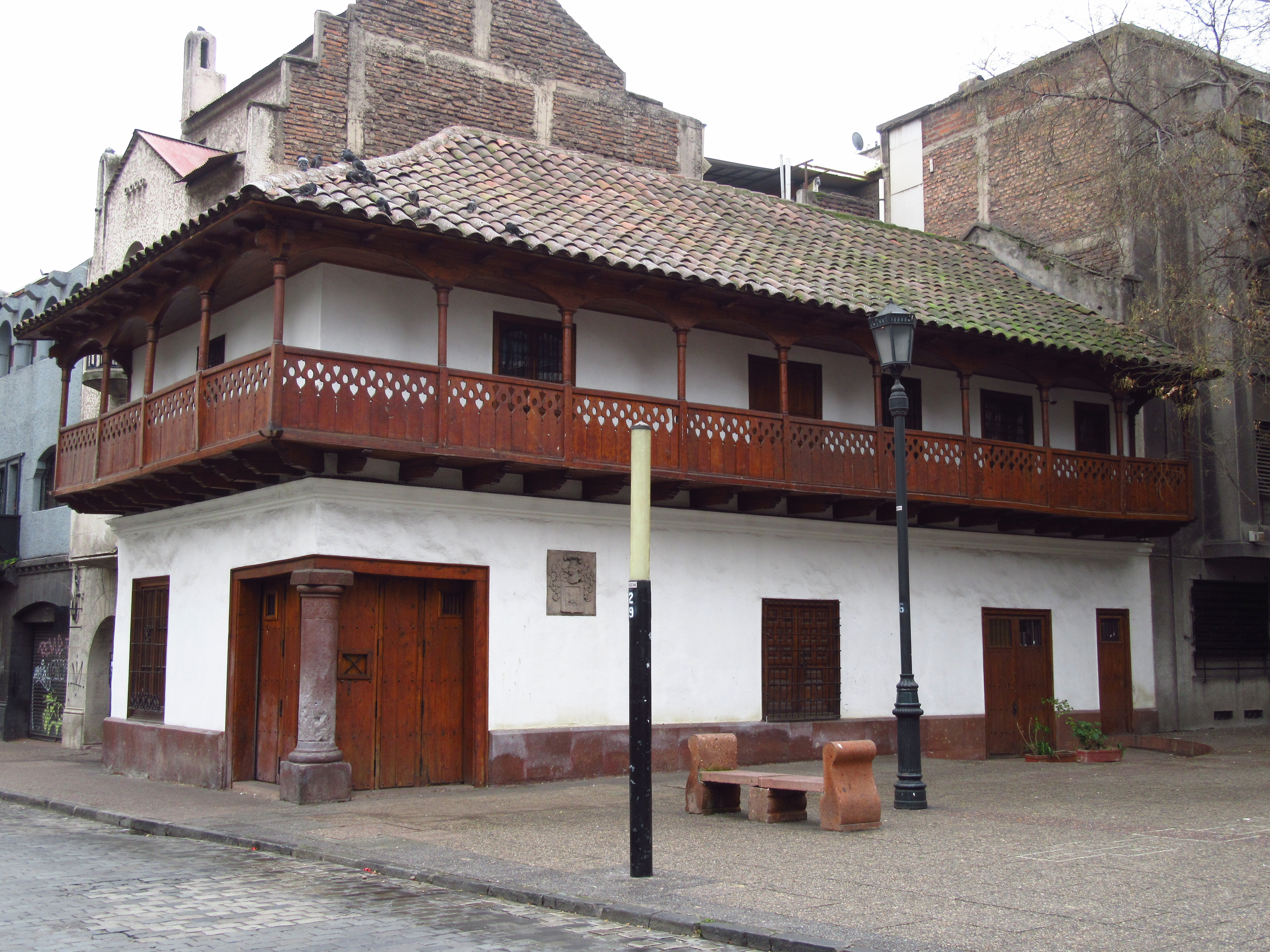 Casa del Corregidor